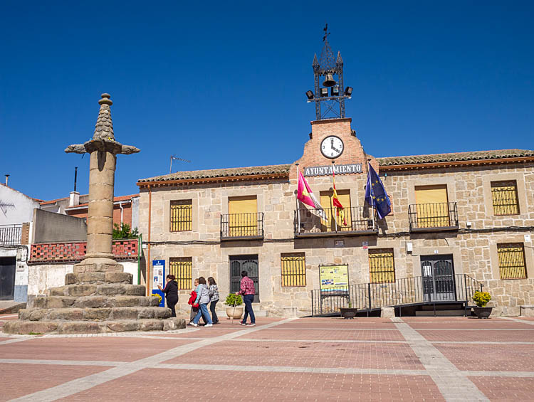 Ayuntamiento y Rollo.